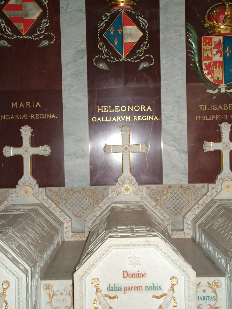 Pantheon of the Infantes - Chapel 9